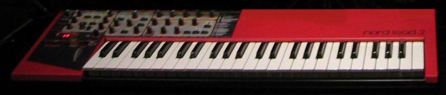 Clavia Nord Lead 2 Soma Electronic Music Studios, Chicago, Illinois : (keyboard rack in the control room)